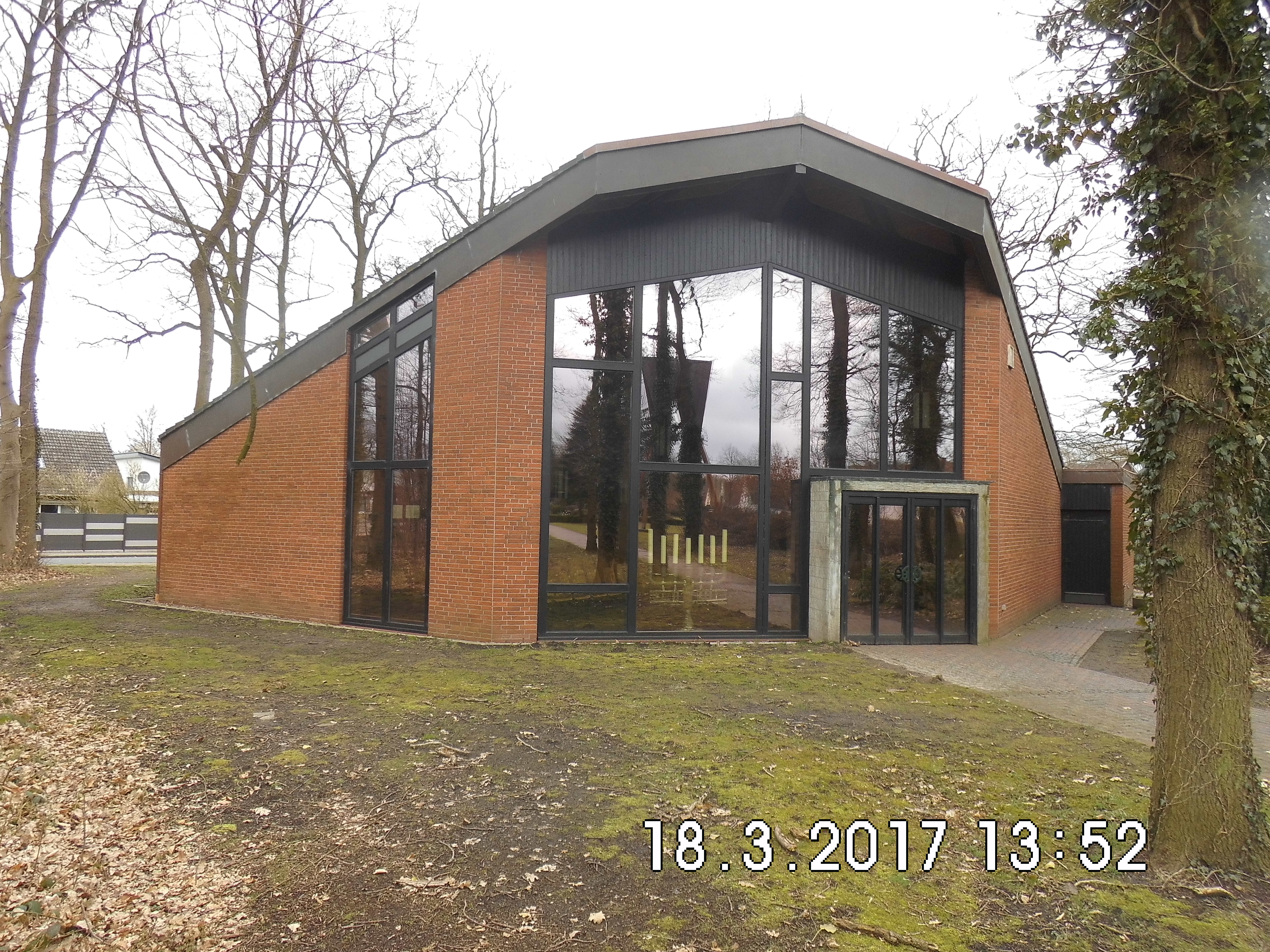 Cemetery Chapel in Himmelpforten, seen from south, architect Uwe Oellerich